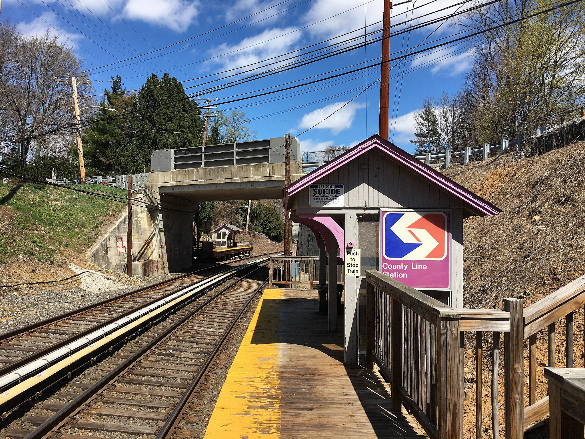 County Line Station - NHSL